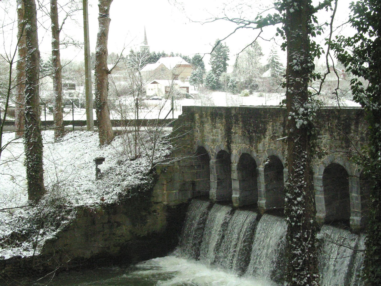 Montignies-Saint-Christophe (Belgium), the bridge called "the roman bridge" on the Hantes river Walon: Montignîye-Sint-Cristofe (Bèljike), li pont roman k’on lume li " pont romain" sul Ante.